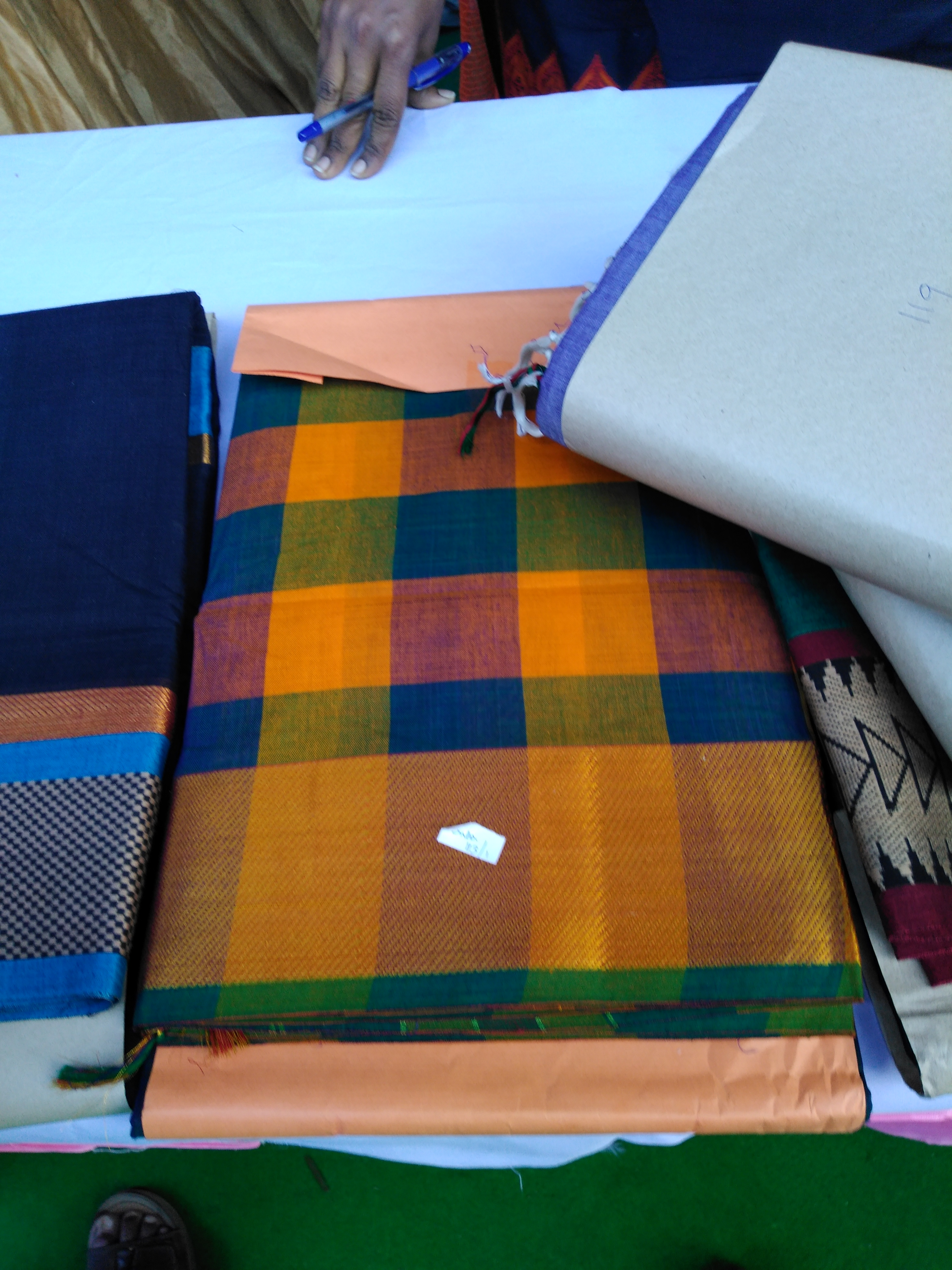 తెలుగు ప్రపంచ మహాసభల వద్ద దృశ్యాలు,వ్యక్తులు,సమావేశాలు